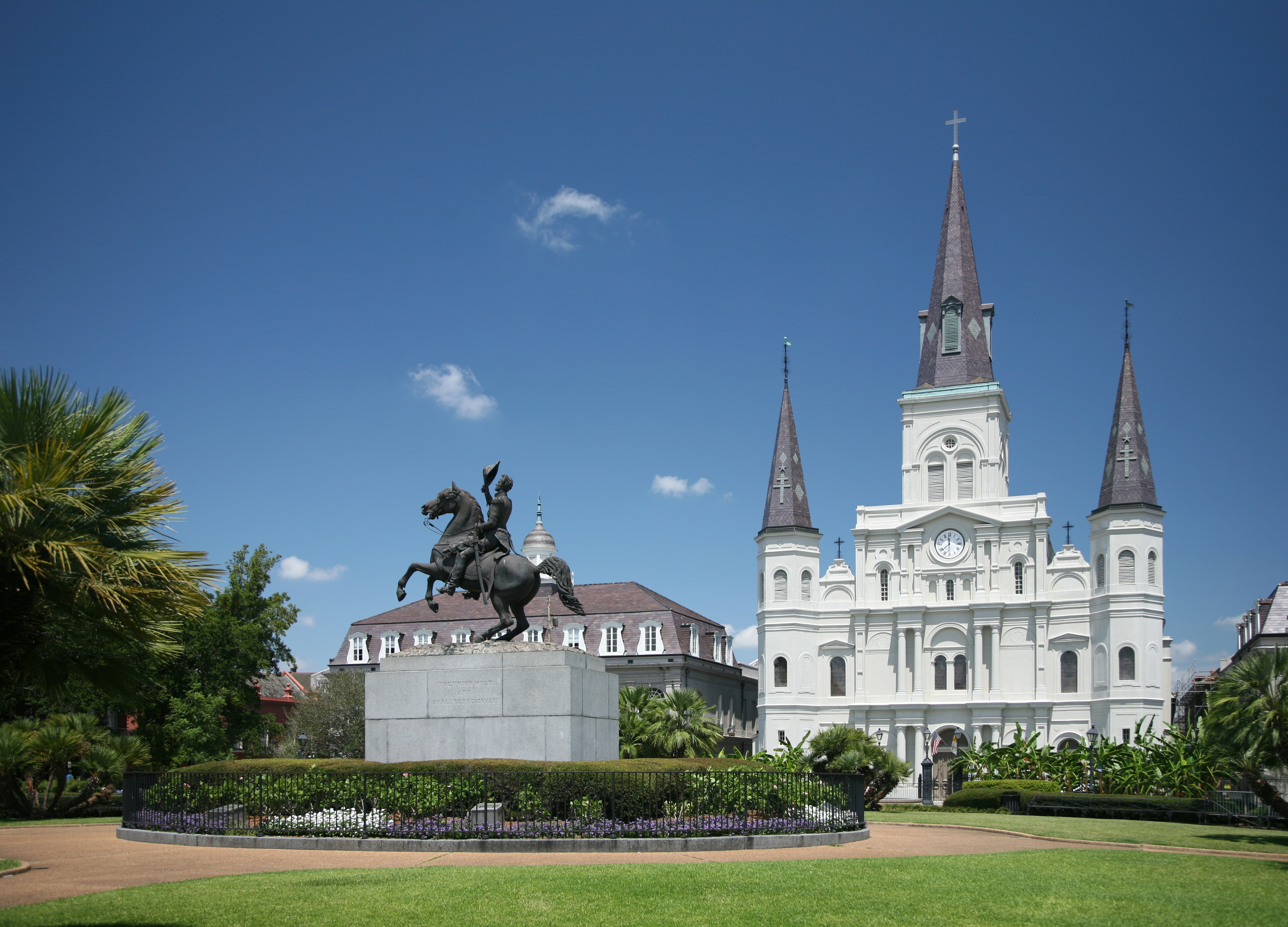 Jackson Square in New Orleans